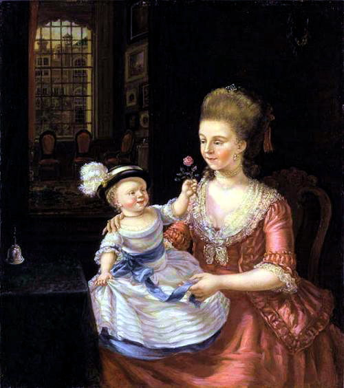 Maria Margaretha la Fargue, Mother holding child (18th c.)